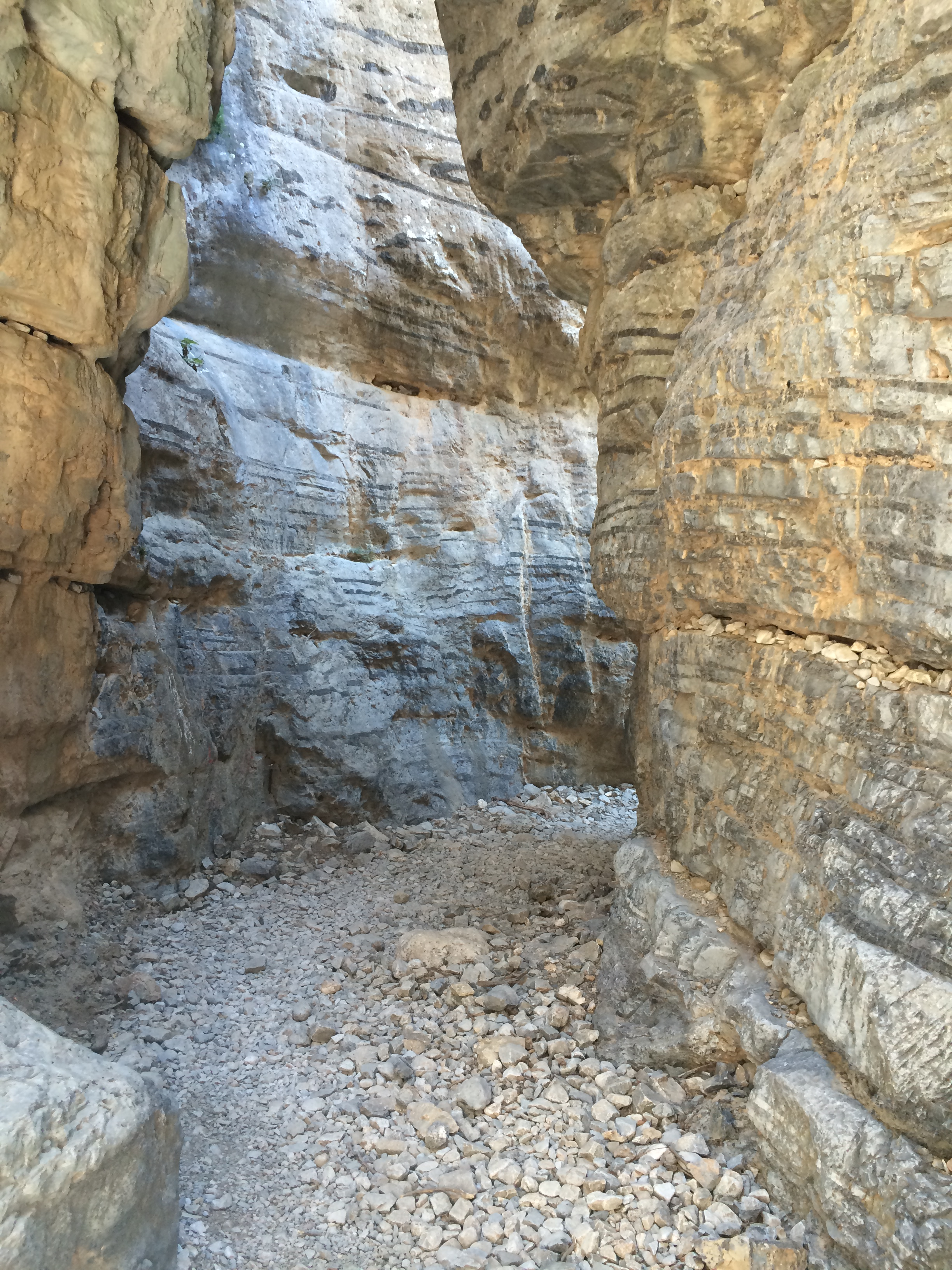 In the Imbros Gorge